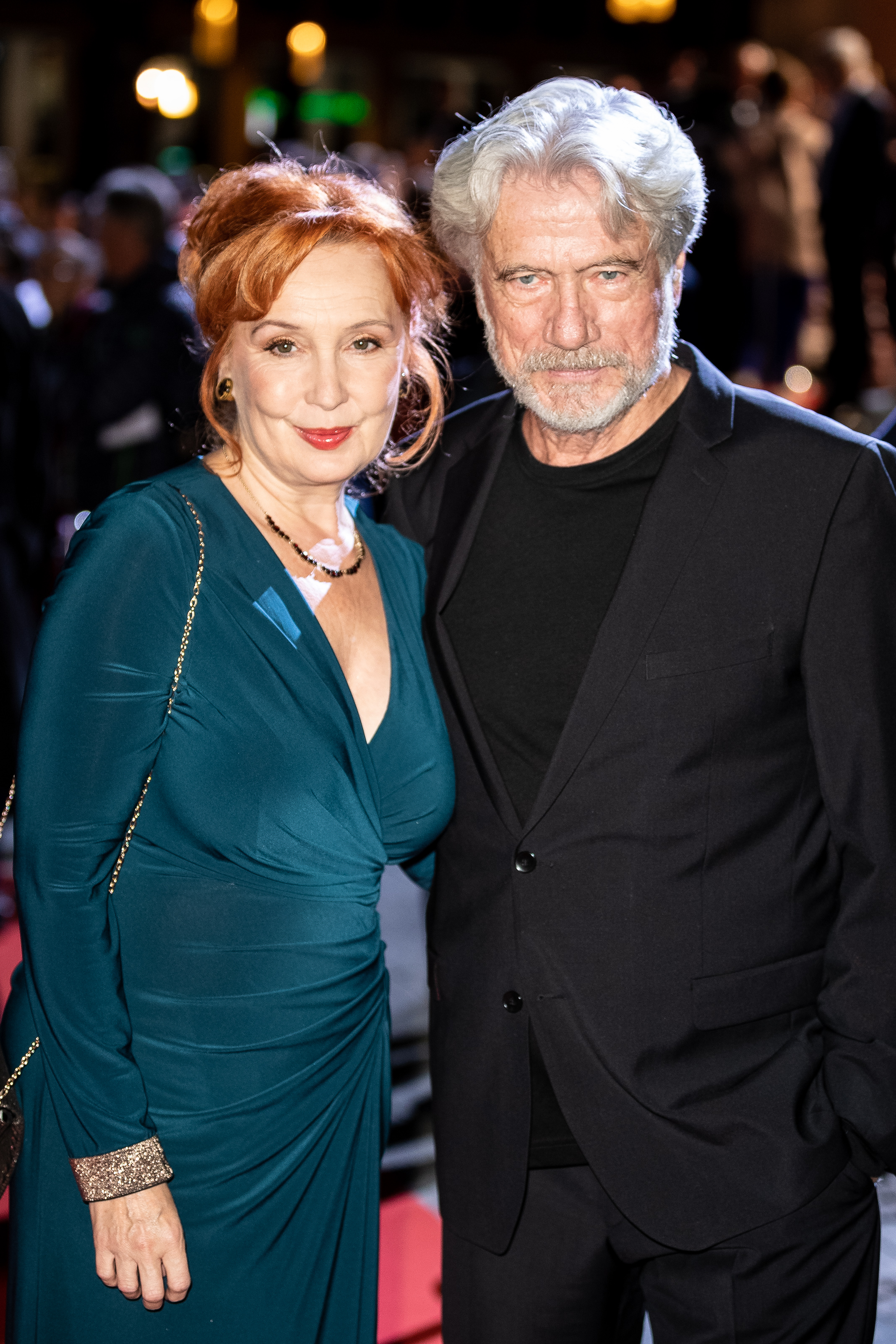 Verena Wengler and Jürgen Prochnow on the red carpet of the Hessian Film and Cinema Prize 2019 in the Alte Oper Frankfurt.